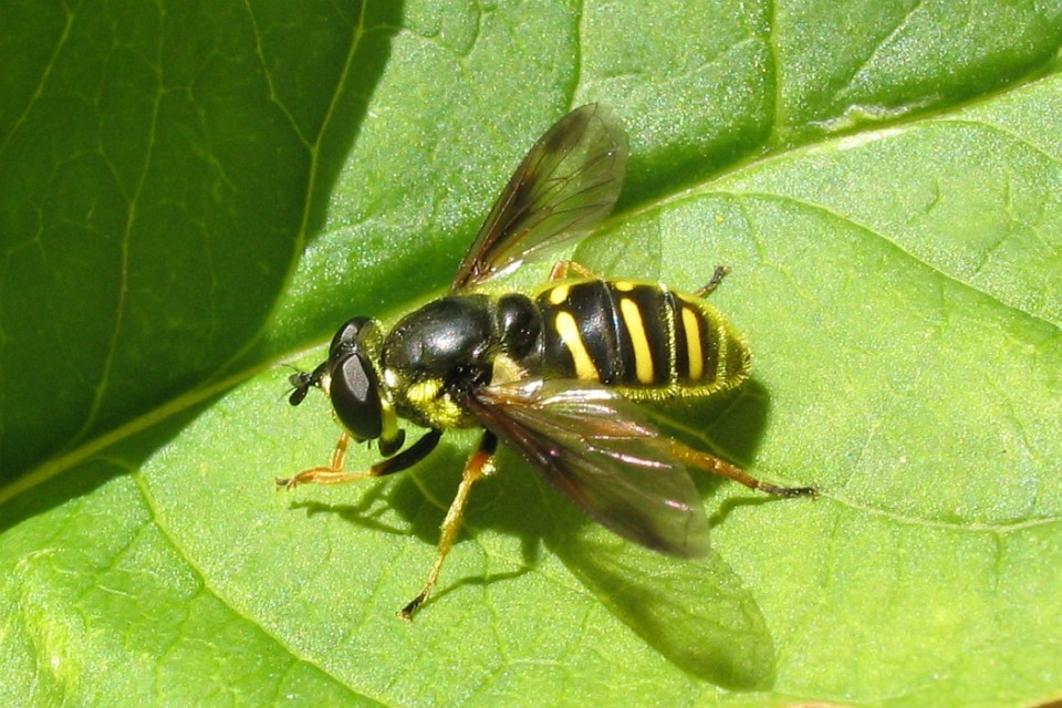 Syrphid Fly presumably living in southeastern Canada and adjacent parts of US